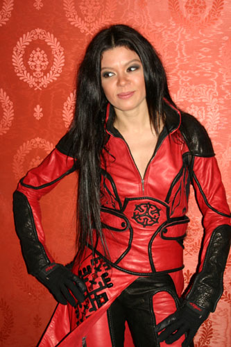 Ruslana at German Eurovision national selection, Hamburg, Germany